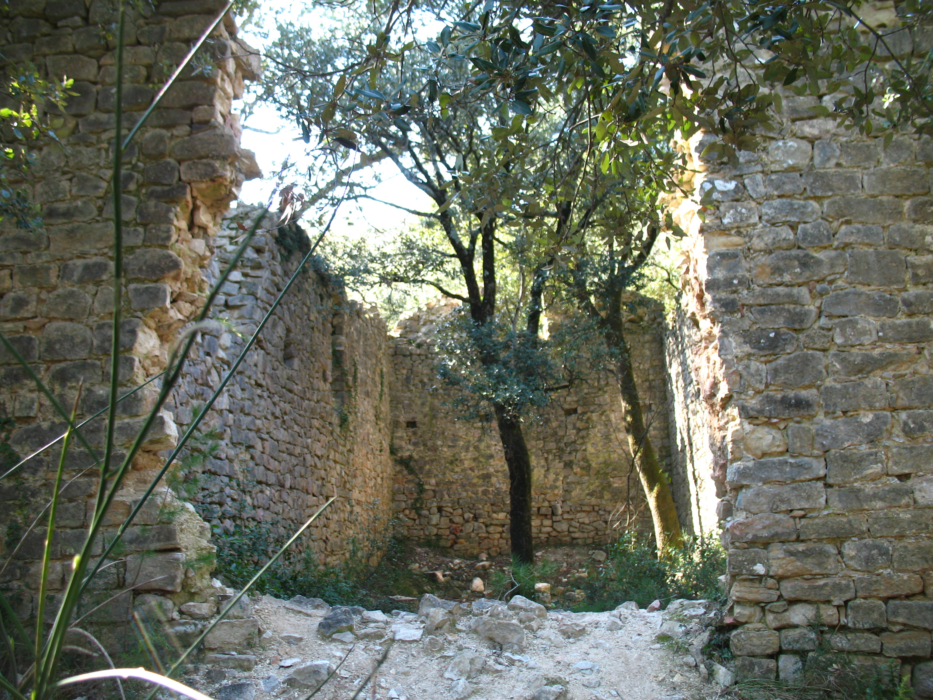 Rocbaron Ancient church